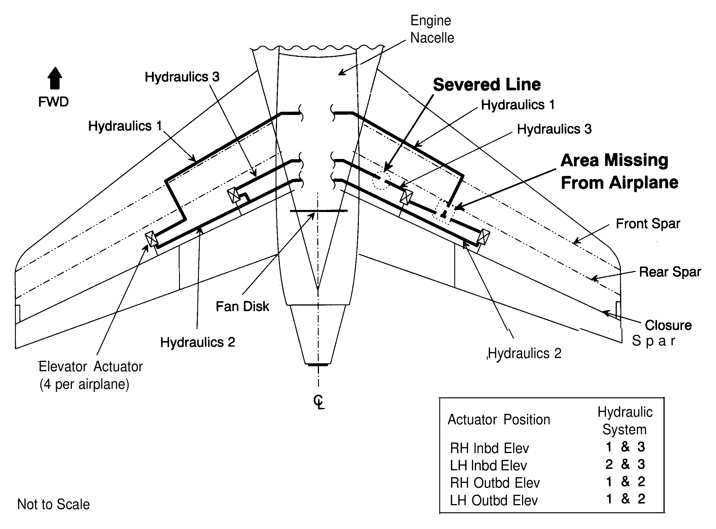 A diagram from the NTSB report into the United Airlines Flight 232 crash in 1989. This shows the damage caused to the hydraulics in the tail section of the DC10 involved.